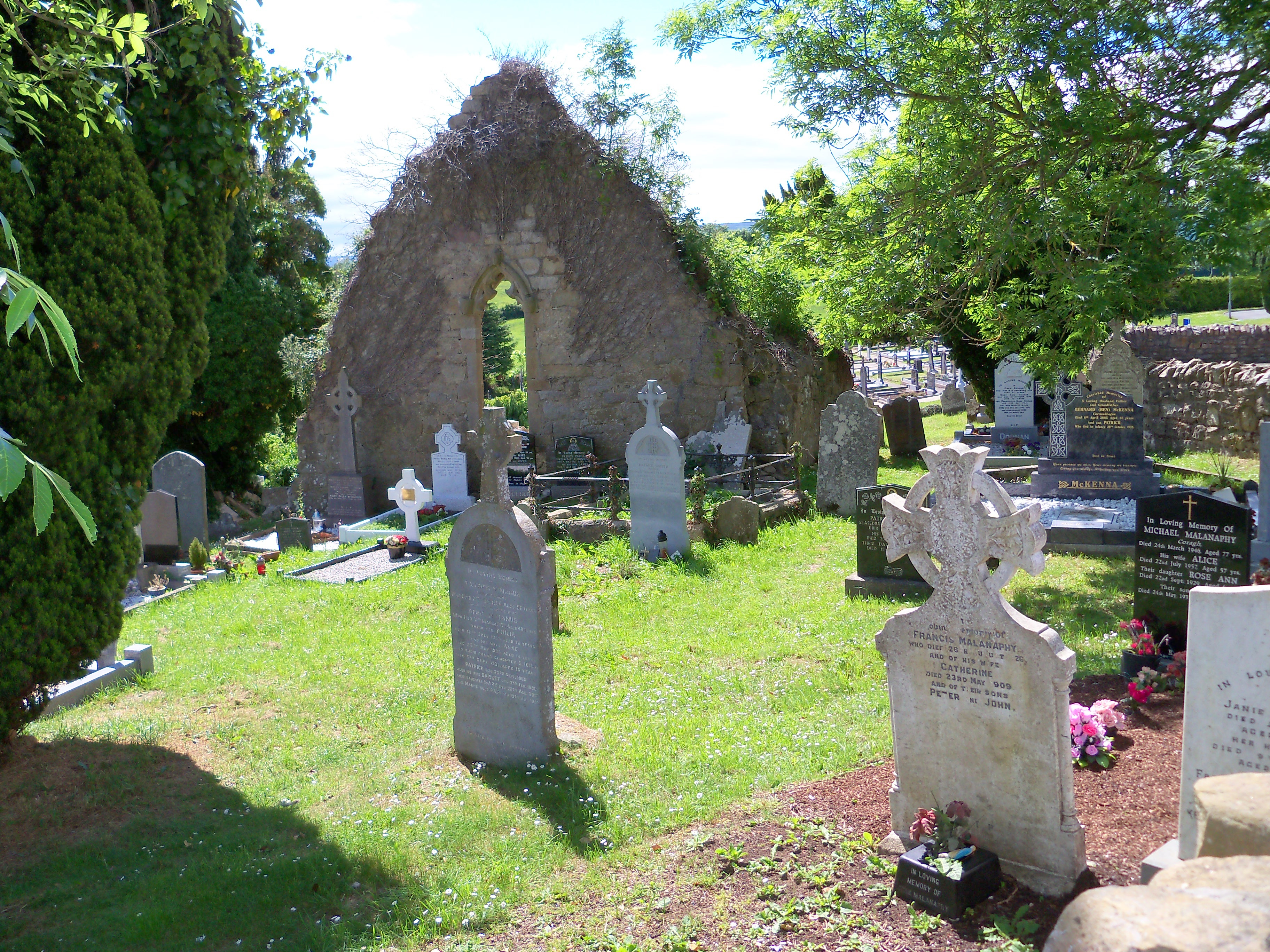 Ruins of the medieval church of St Naile, Kinawley, Fermanagh. From the nearby information sign: "The existing ruins stand on the site of an earlier church Cill Naile, Church of Naile associated with St Naile, Natalist of Inver, from whom it [the town] takes its name. It is the ruins of the medieval (15th century) parish church that form the "Old Walls" still in existence."